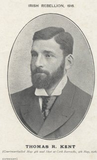 Memorial postcard for Irish nationalist Thomas Kent executed 9 May 1916 following the Irish Easter Rising